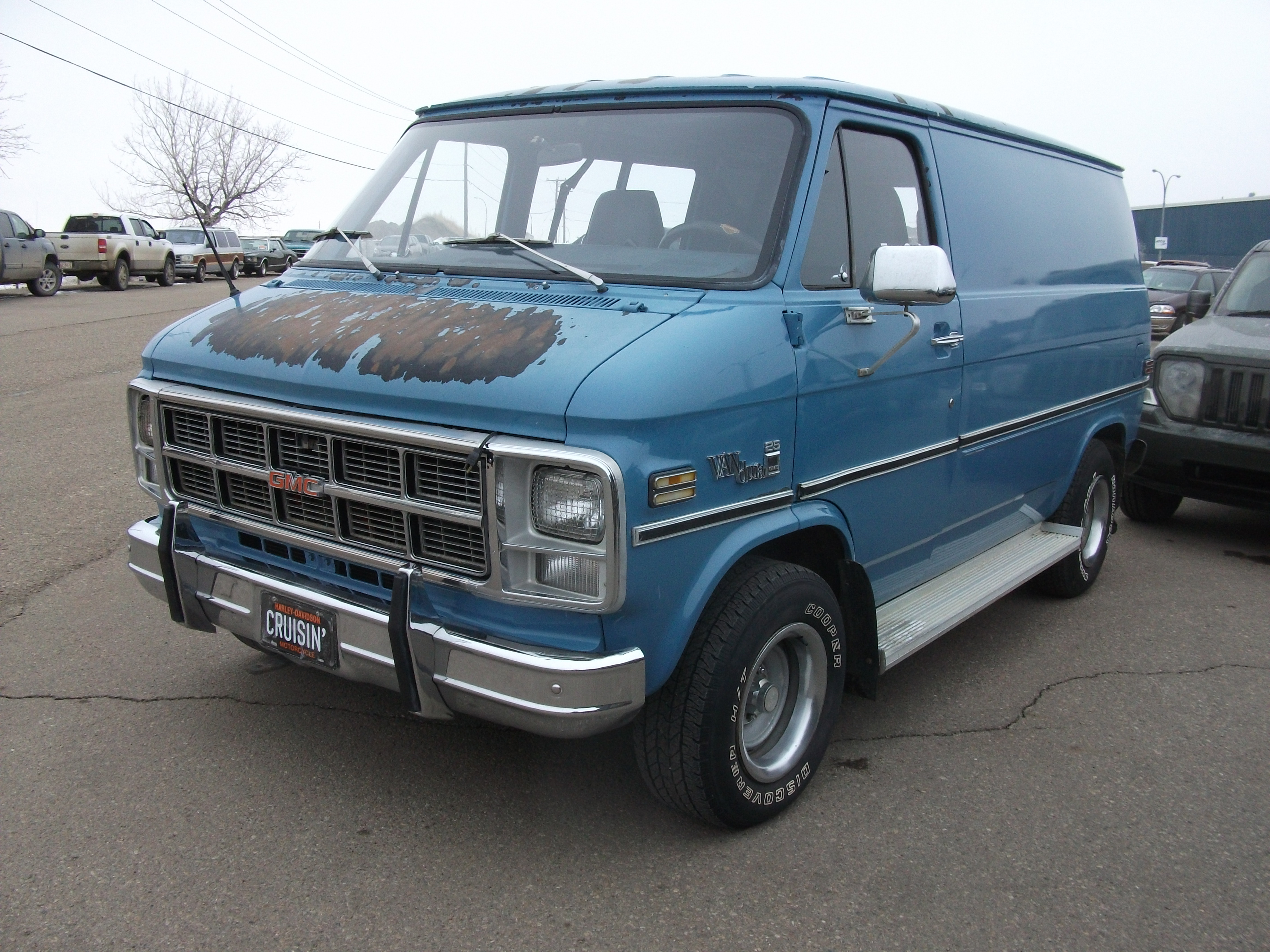 Short wheelbase GMC Van Dura